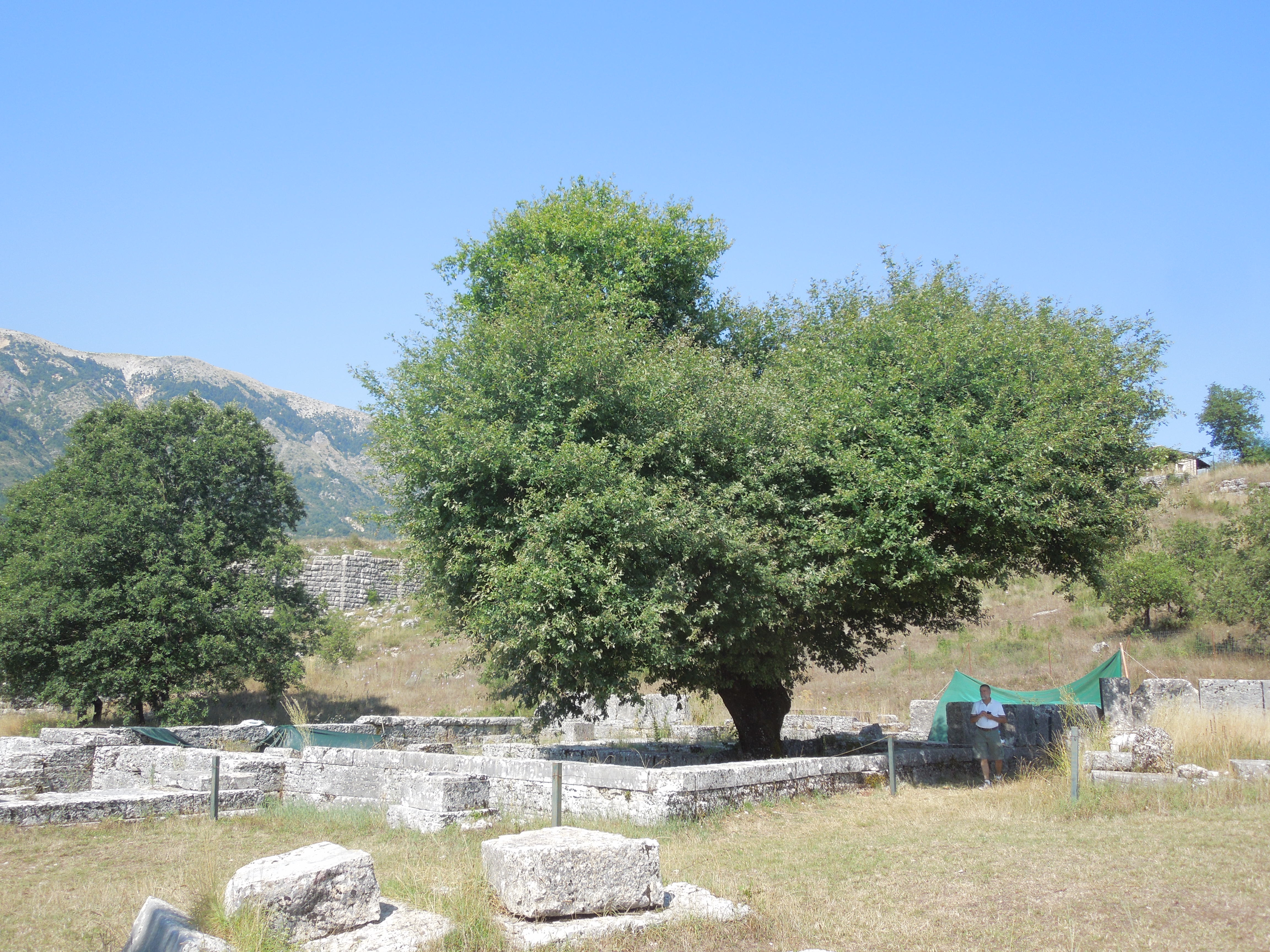 Temple of Zeus at Dodona, with (replacement) oracle oak